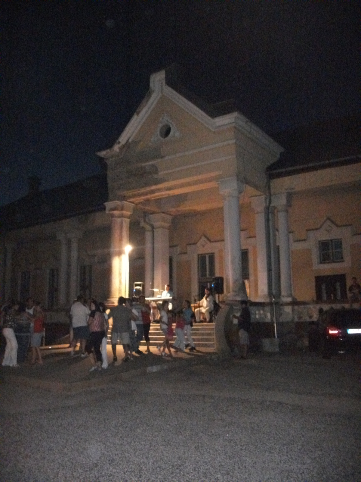 Zichy Mansion in Zichyújfalu, Hungary.